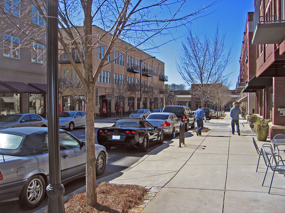 Commerical mixed-use town center in Glenwood Park. Note: ample sidewalk width for street trees and street furniture with plenty of room to walk in between. This work is licensed under a Creative Commons Attribution 3.0 United States License